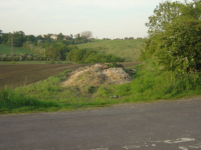 Roman Ridge. The line of trees marks the line of the earthwork known as Roman Ridge. See Wikipedia Roman_Ridge for more information.